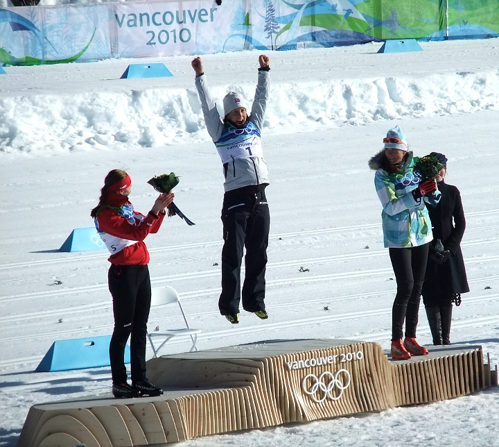 Marit Bjørgen celebrates Olympic gold after the sprint competition in Whistler 2010.